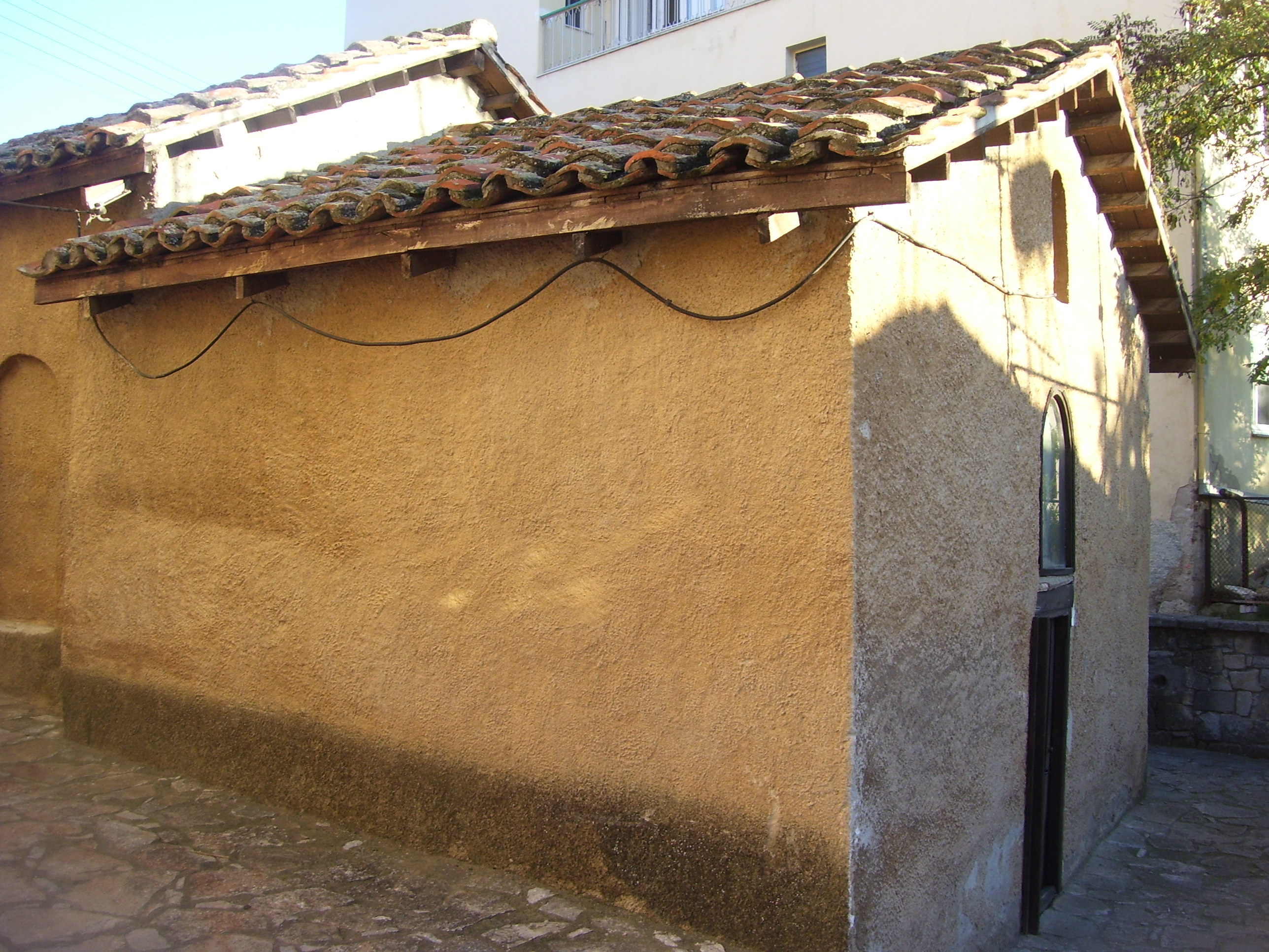 Church of „Agii Atanasiy Mouzaki“ in Kastoria, Greece.